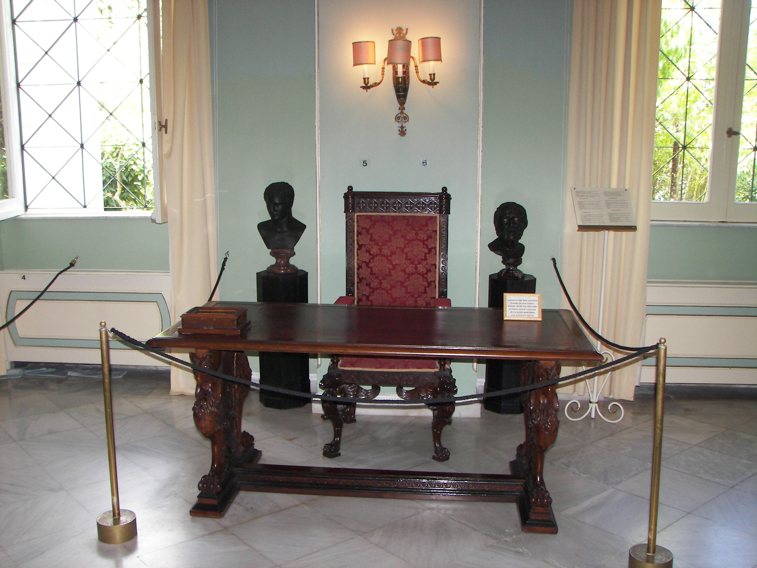 I am the author. Dr.K. 22:30, 8 December 2006 (UTC)